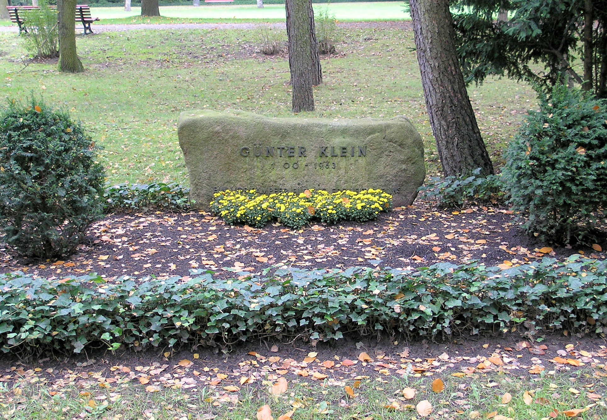 "Ehrengrab" (grave of honor), Günter Klein, Potsdamer Chaussee 75, Berlin-Nikolassee, Germany Koordinate:52°25′23″N 13°12′38″E / 52.42306°N 13.21056°E